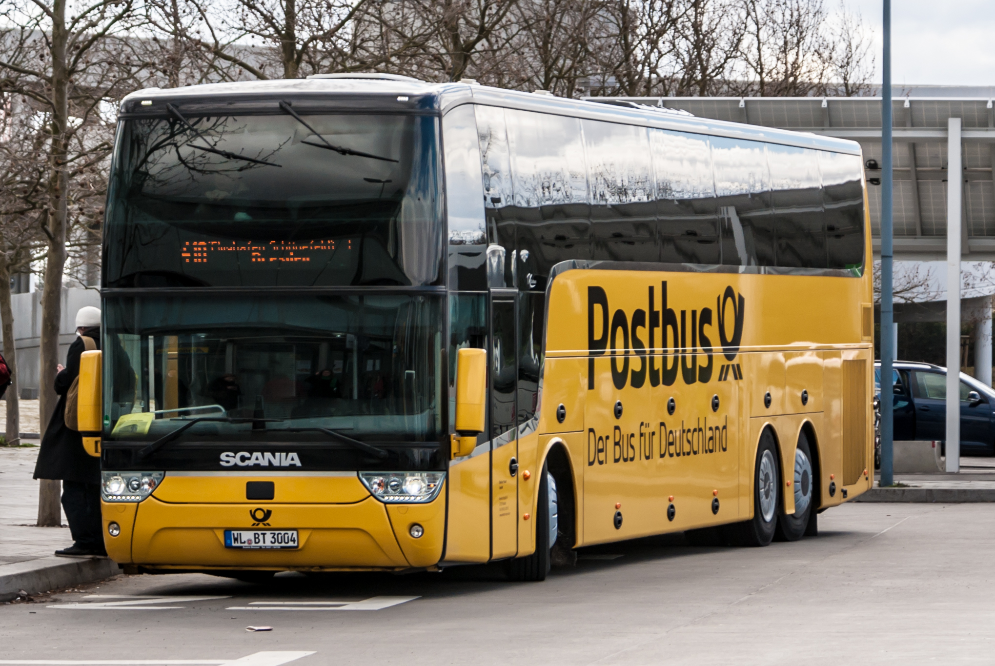 A Scania Van Hool Altano in updated Postbus livery at Berlin-Südkreuz in April 2015